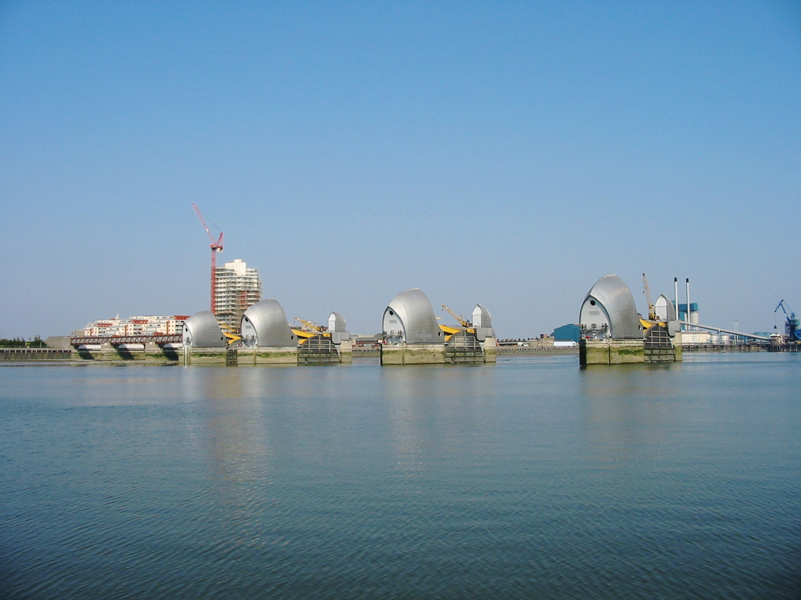 The Thames Barrier prevents the floodplain of most of Greater London from being flooded by exceptionally high tides and storm surges moving up from the North Sea. It has been operational since 1984. When needed, it is closed (raised) during high tide; at low tide it can be opened to restore the river's flow towards the sea. Built approximately 3 km due east of the Isle of Dogs, its northern bank is in Silvertown in the London Borough of Newham and its southern bank is in the New Charlton area of the Royal Borough of Greenwich.